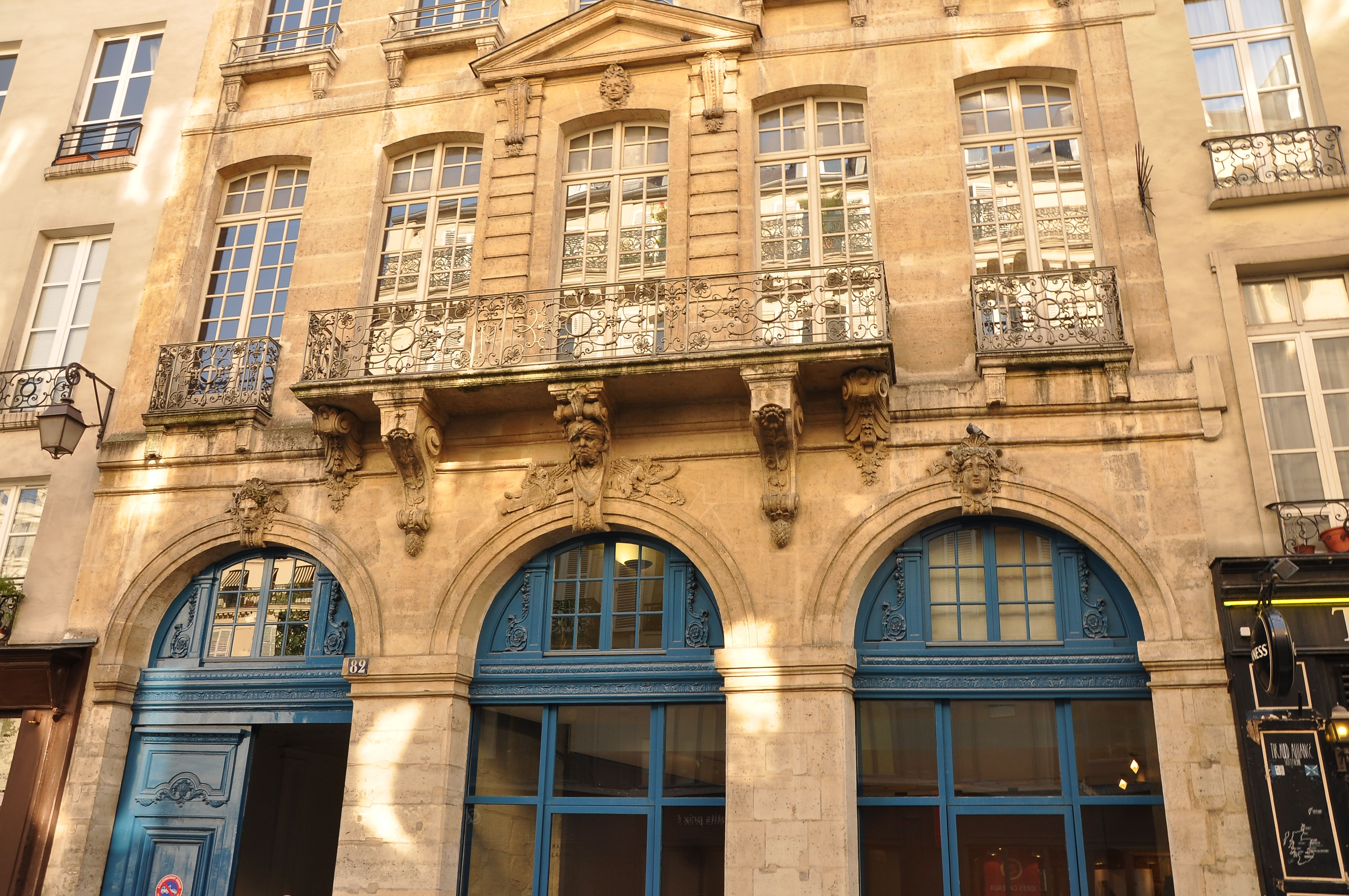 Hôtel du Président Hénault located at 82 rue François-Miron in 4th district of Paris Built in 18th century